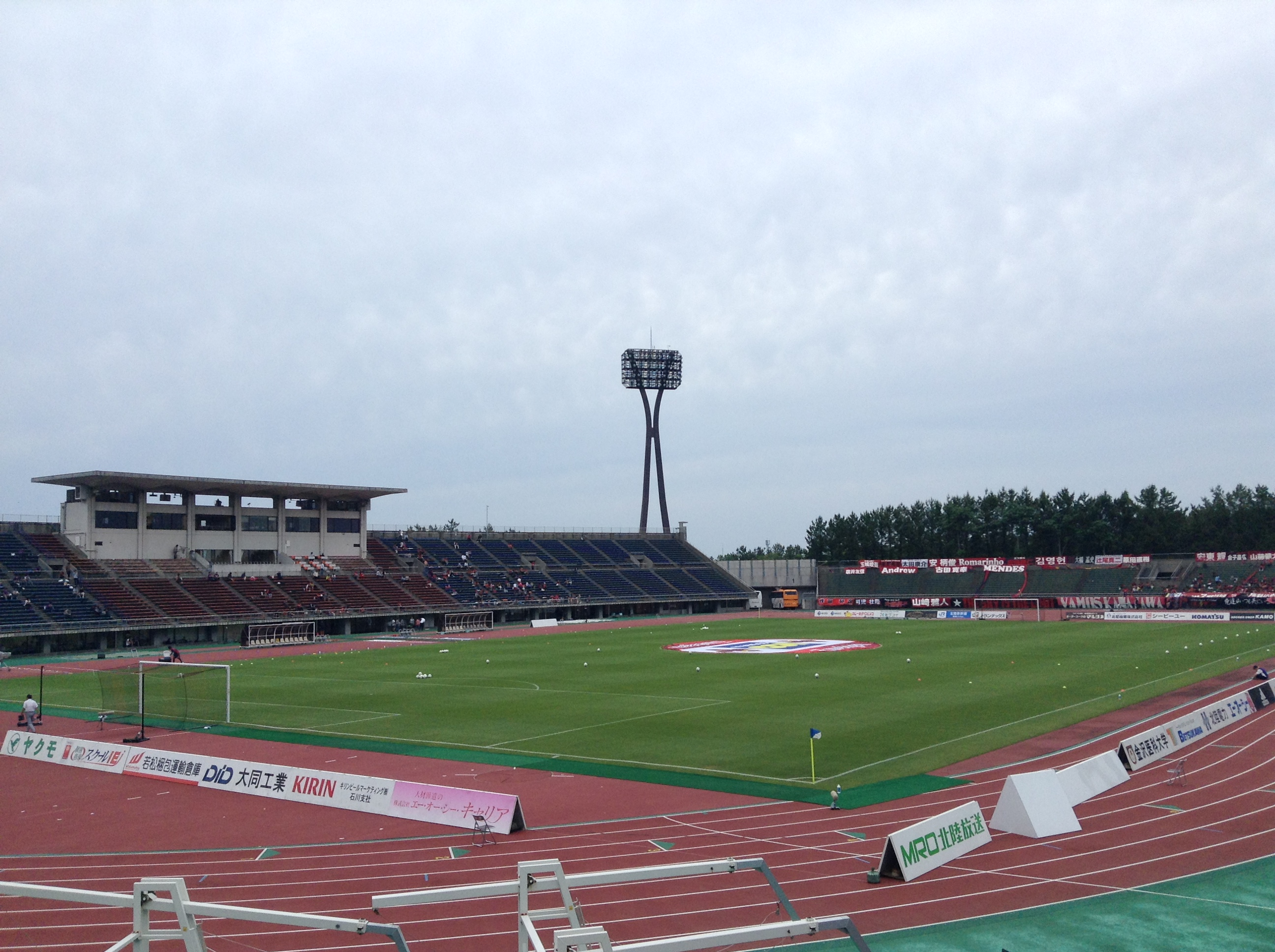 Ishikawa Athletics Stadium , J2 League , Zweigen Kanazawa vs Kyoto Sanga F.C., 4 June, 2016.